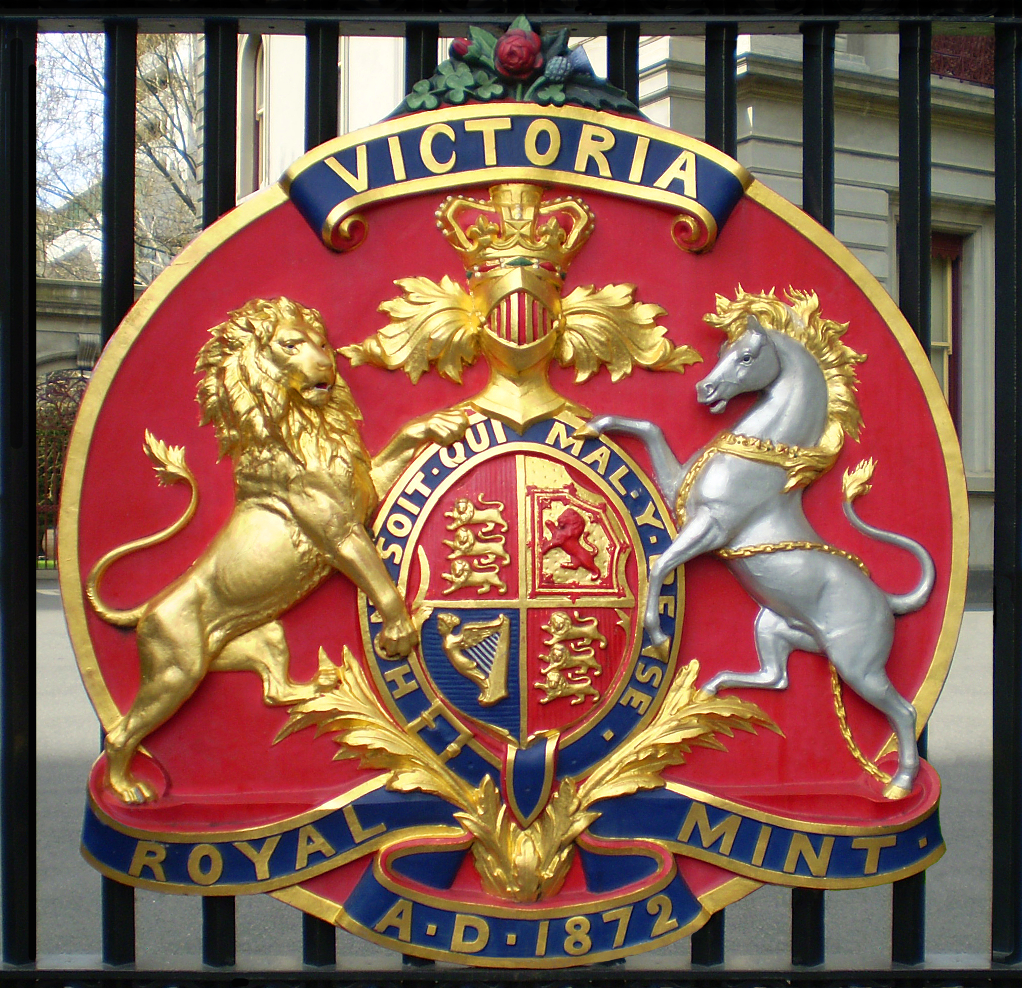 Coat of arms on the gates of the former Royal Mint building / Melbourne Mint, 280-318 William Street, Melbourne by Walter Langcake.